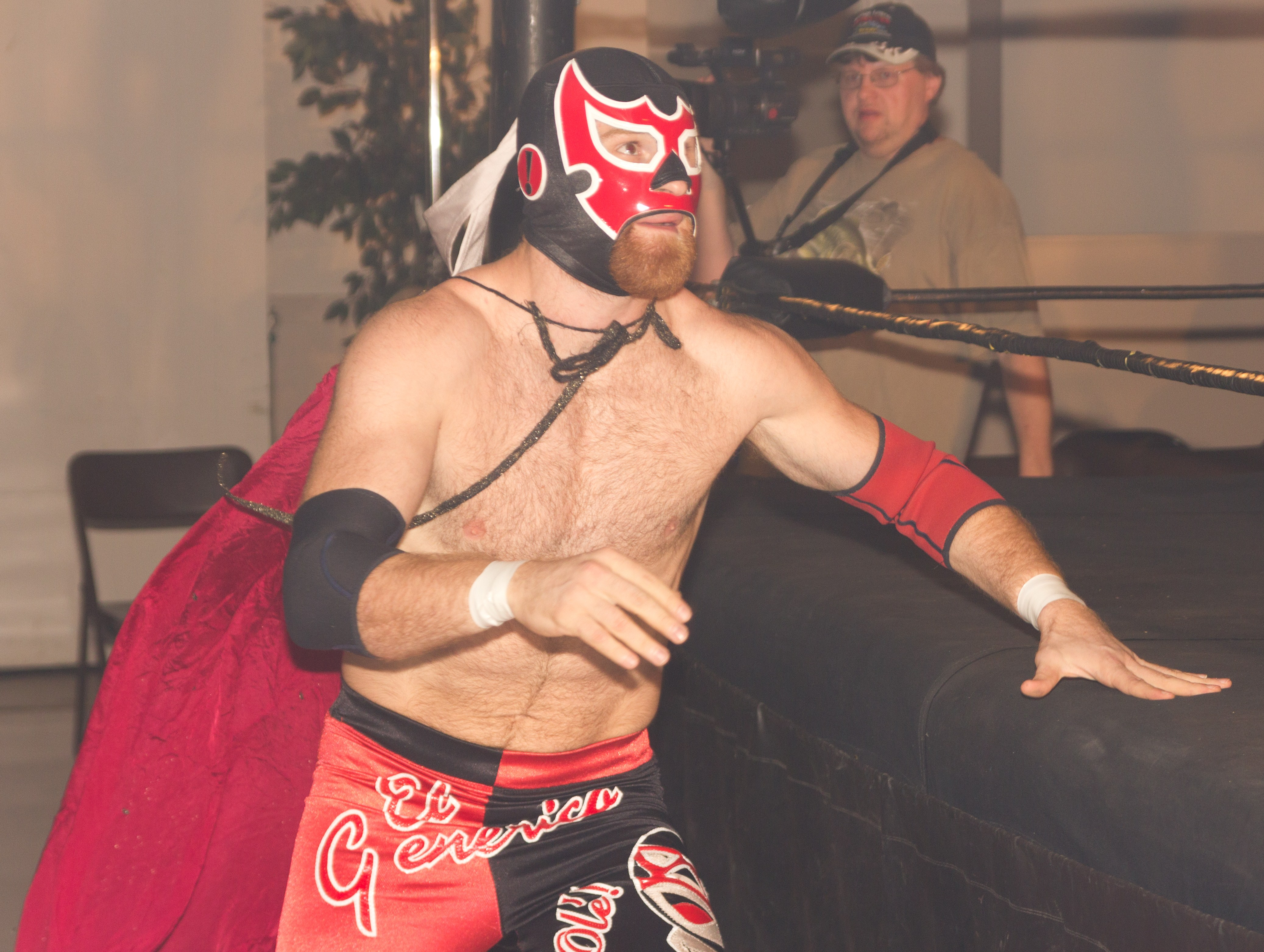 Wrestler El Generico making his ring entrance at Chikara's A Foggiest Notion show in Strathroy, ON